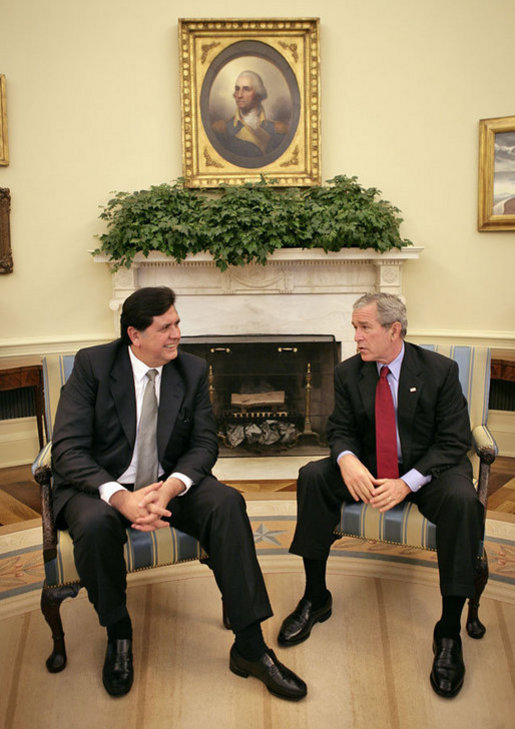 President George W. Bush talks with President Alan Garcia of Peru in the Oval Office Tuesday, Oct. 10, 2006. “We talked about world issues, we talked about issues regarding South America and Central America, and we talked about our bilateral relations,” said President Bush in his remarks to the press. “The central issue facing us right now is the passage of a free trade agreement.